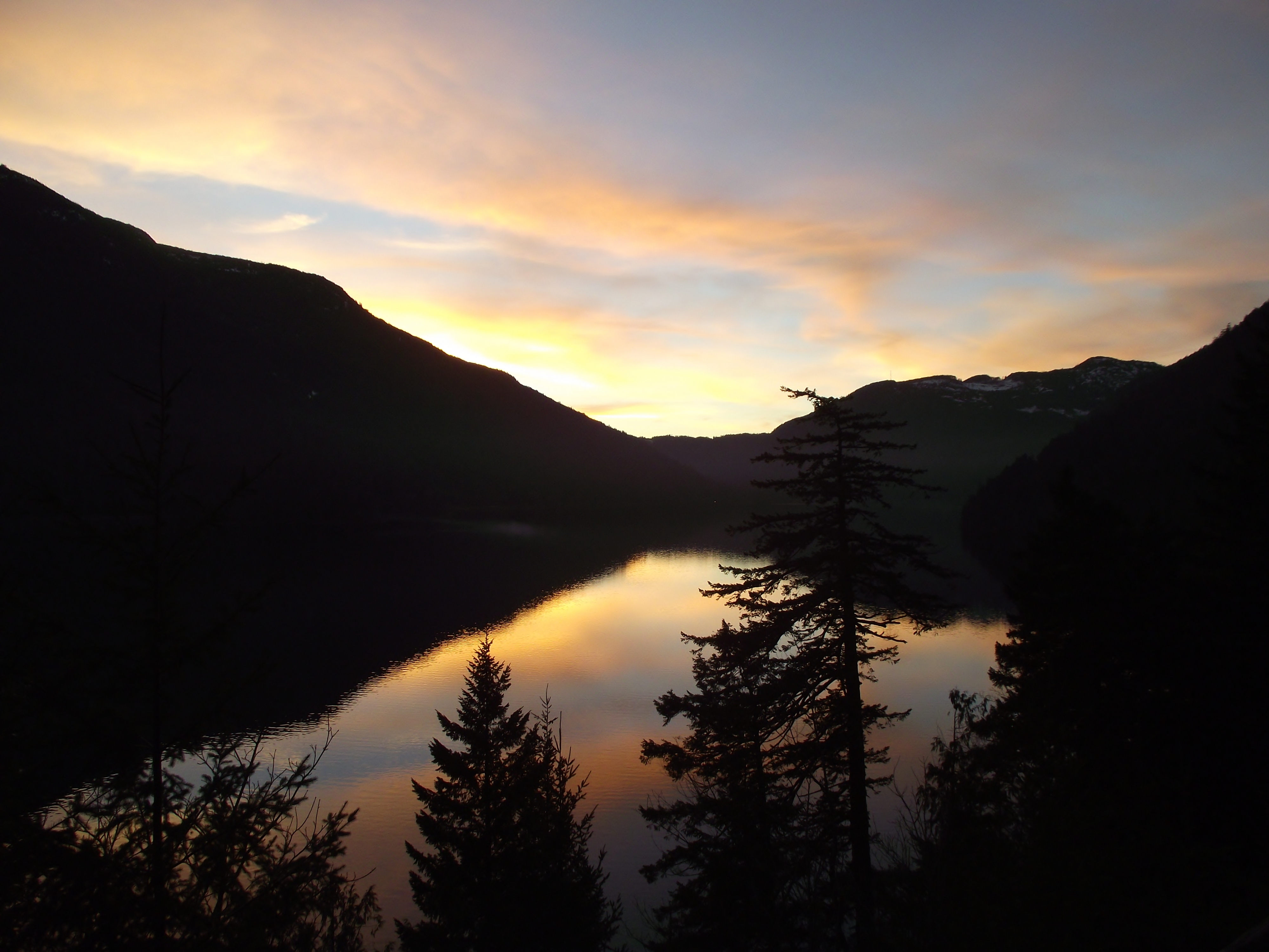 Cameron Lake, BC at dusk, viewed from the north, January 2013